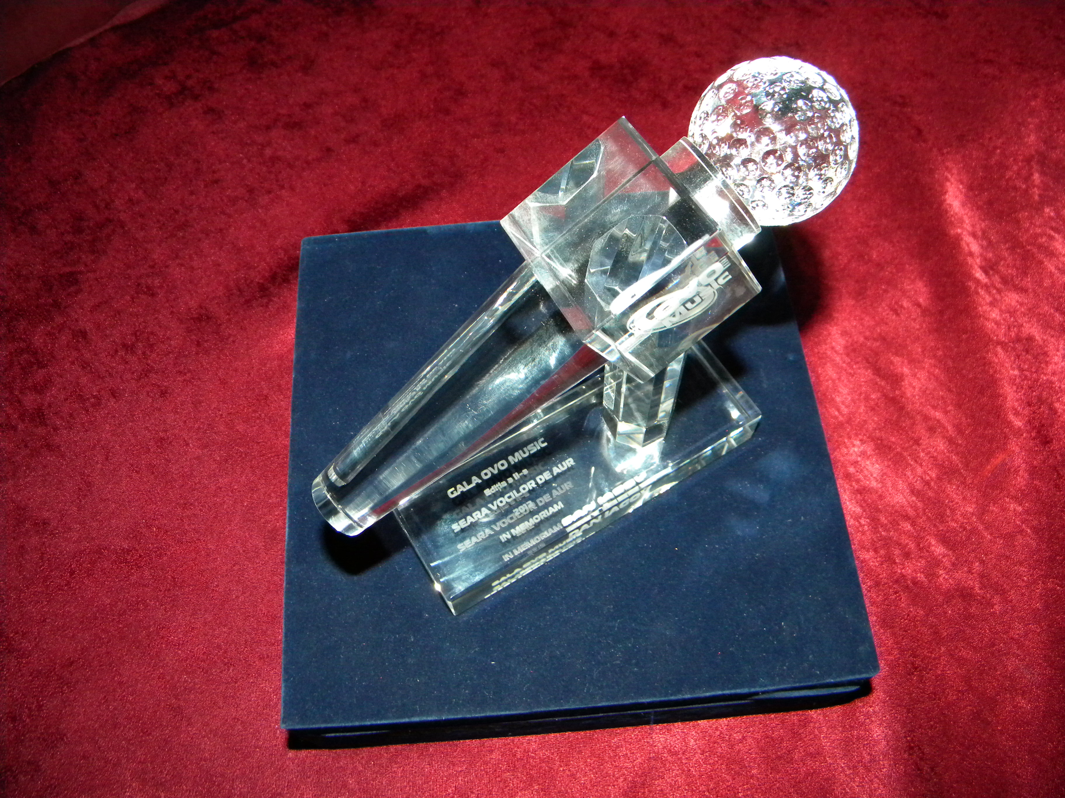 GALA OVO MUSIC Prize, Second edition, IN MEMORIAM DAN IAGNOV